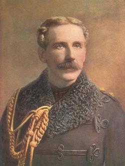 Lieutenant-Colonel William Dillon Otter, Commanding Royal Canadian Regiment of Infantry, South Africa 1900